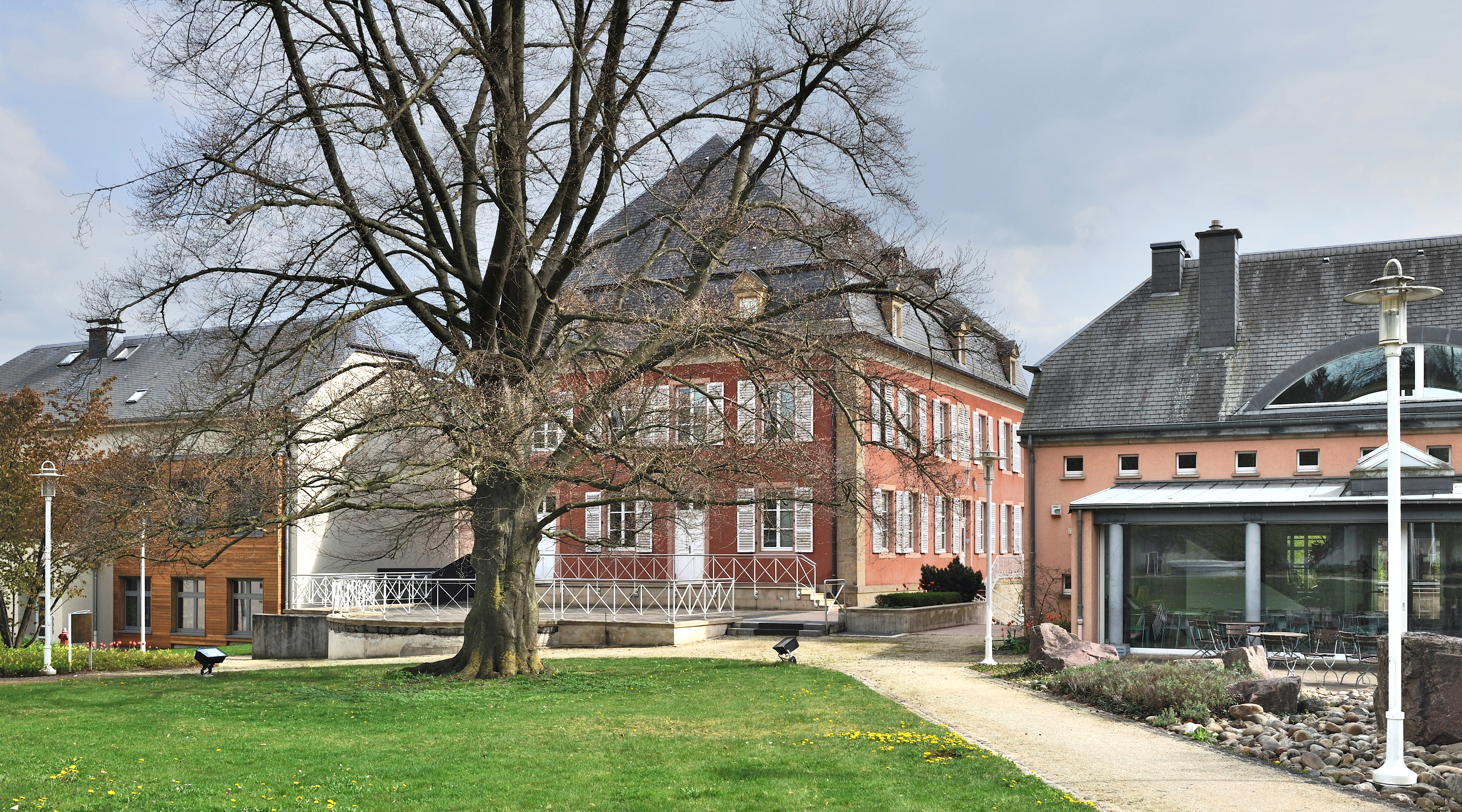 Mersch: Maison Servais, National Literature centre of Luxembourg, seen from the park belonging to the Centre.